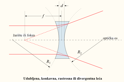 Concave lens, a figure with serbo-croatian labels